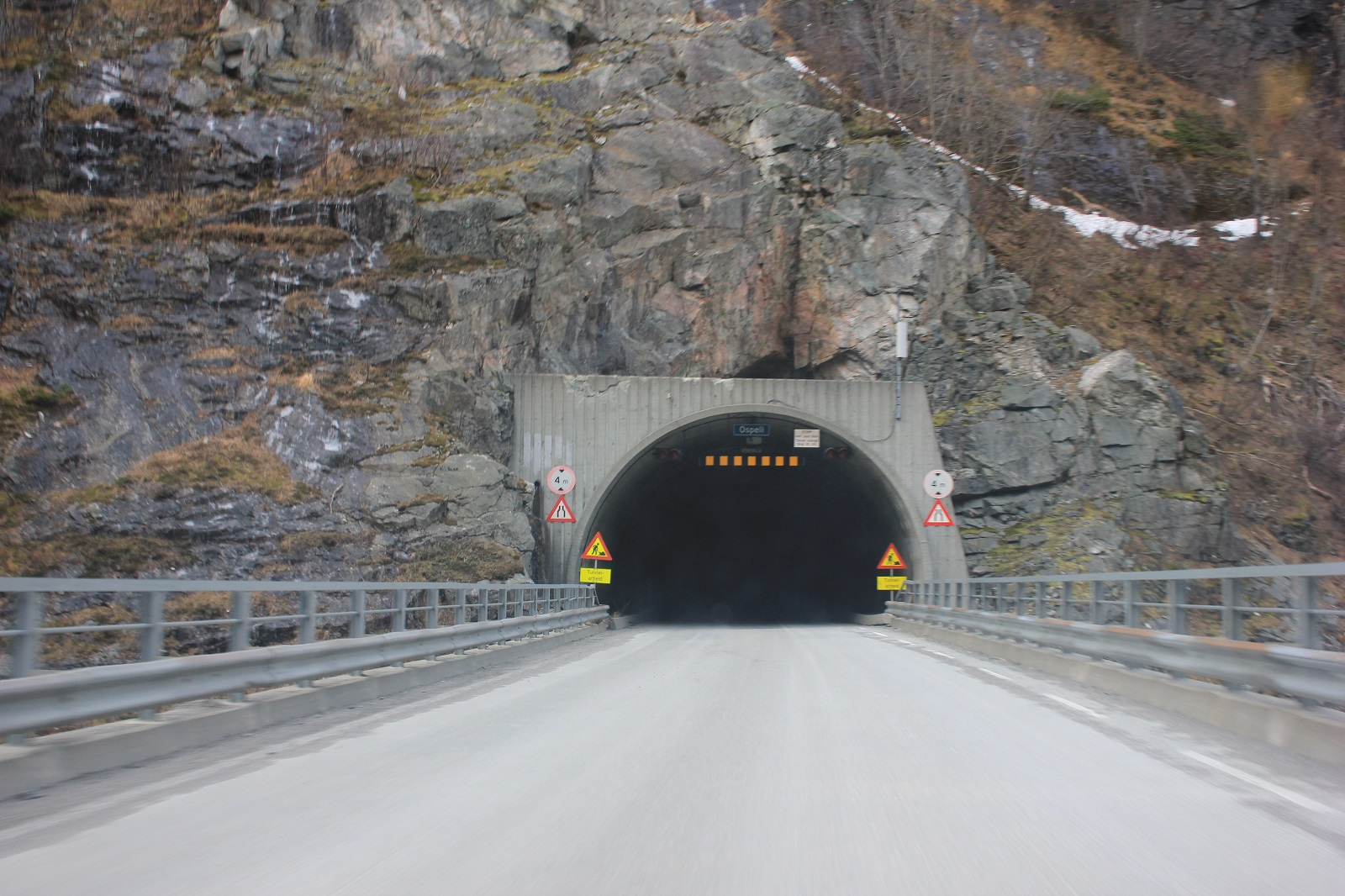 Ospeli tunnel on Strynefjellet road